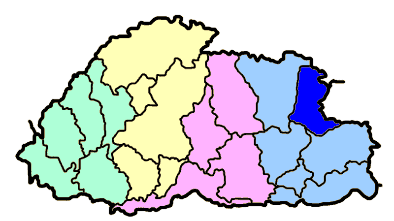 Trashiyangtse district + glance of 4 dzongdey